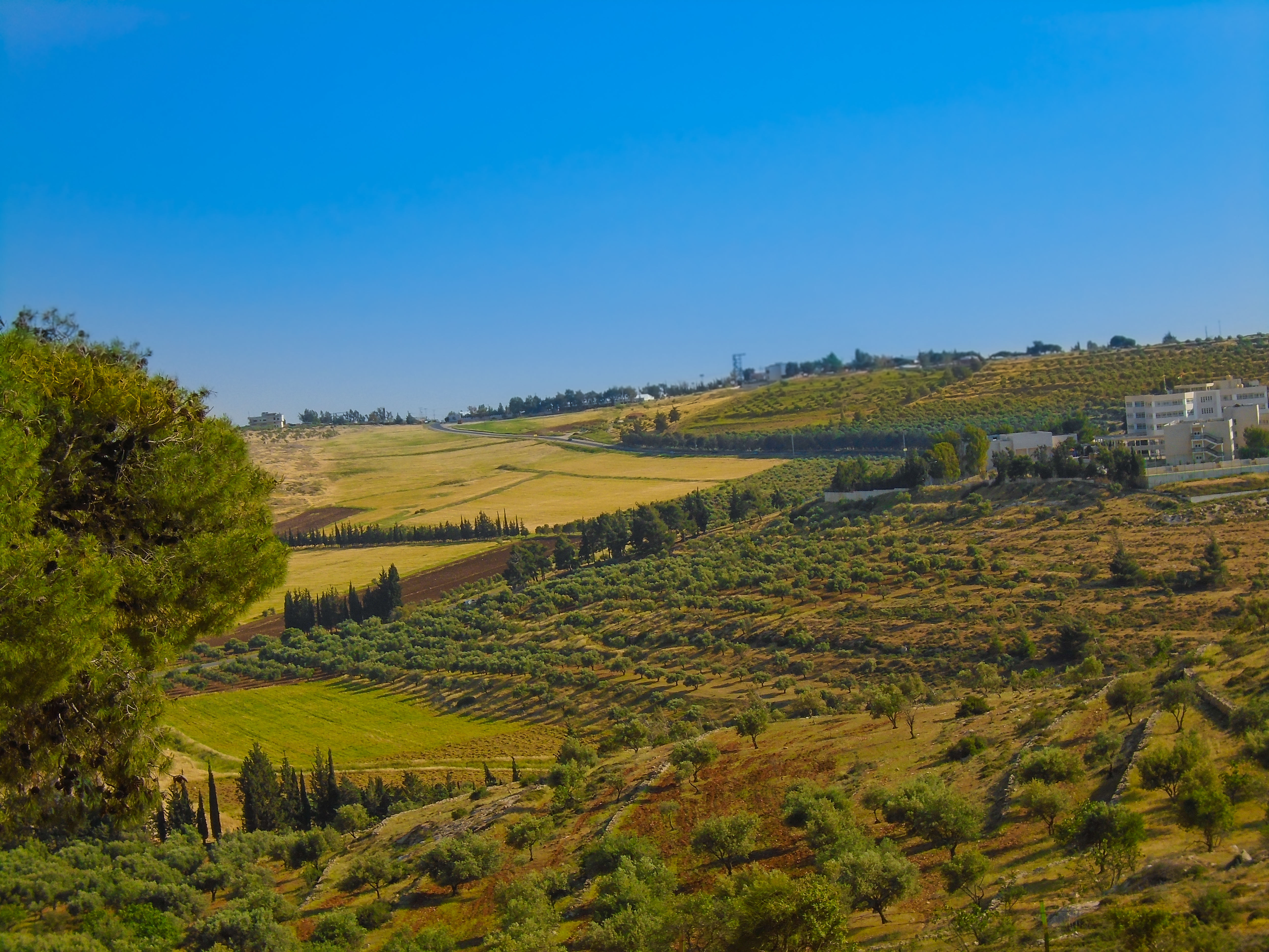 Viewing Area of Amman national park